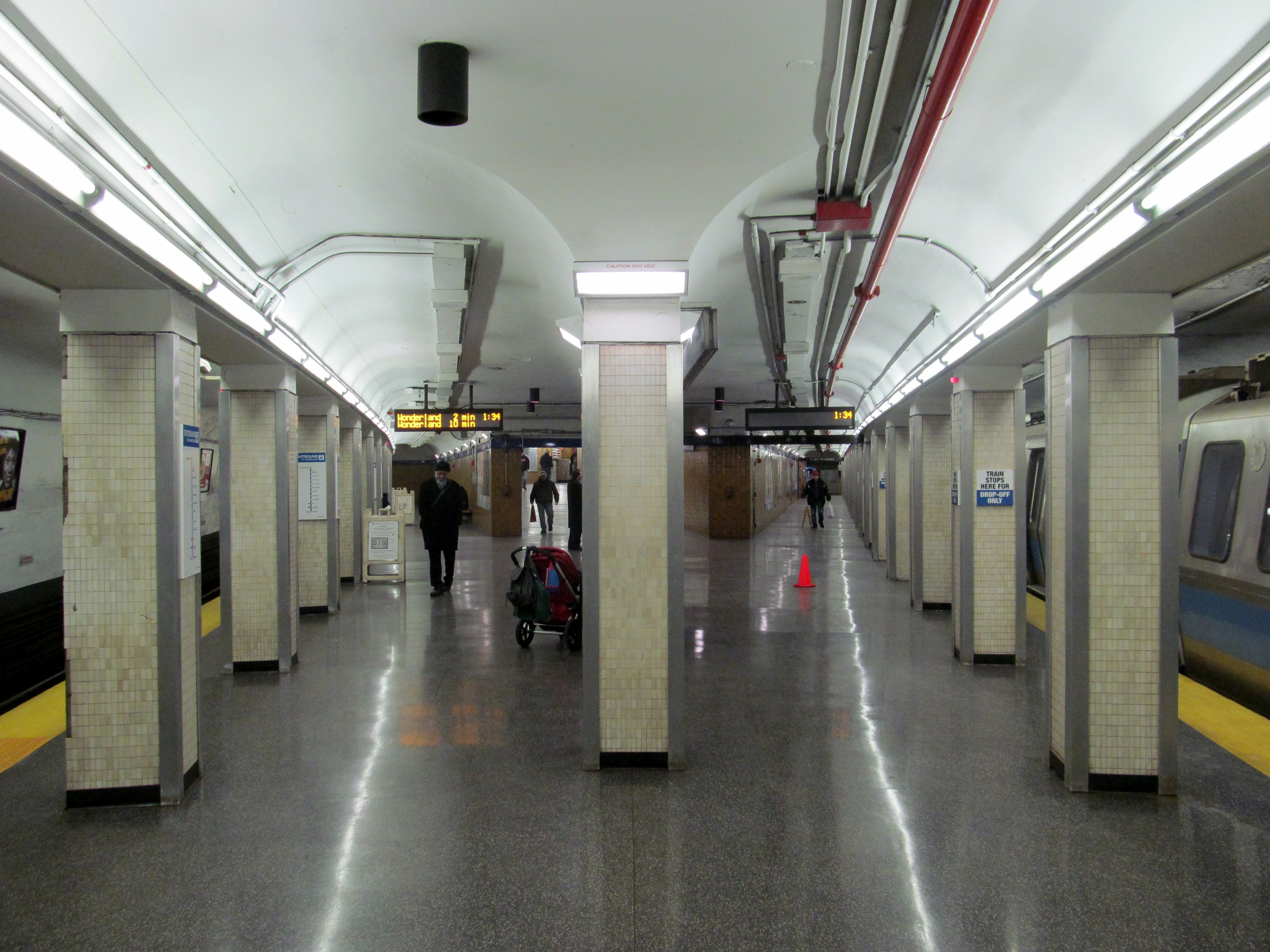 An inbound Blue Line train at the platform at Bowdoin, the inbound terminus of the line. The train will loop and arrive shortly at the outbound side of the wedge-shaped island platform.